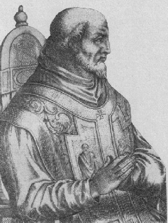 Innocent II, low-quality jpg derived from the copper etching in Pontificum Romanorum effigies by Dominicus Basa, Giovanni Battista Cavalieri (1580).